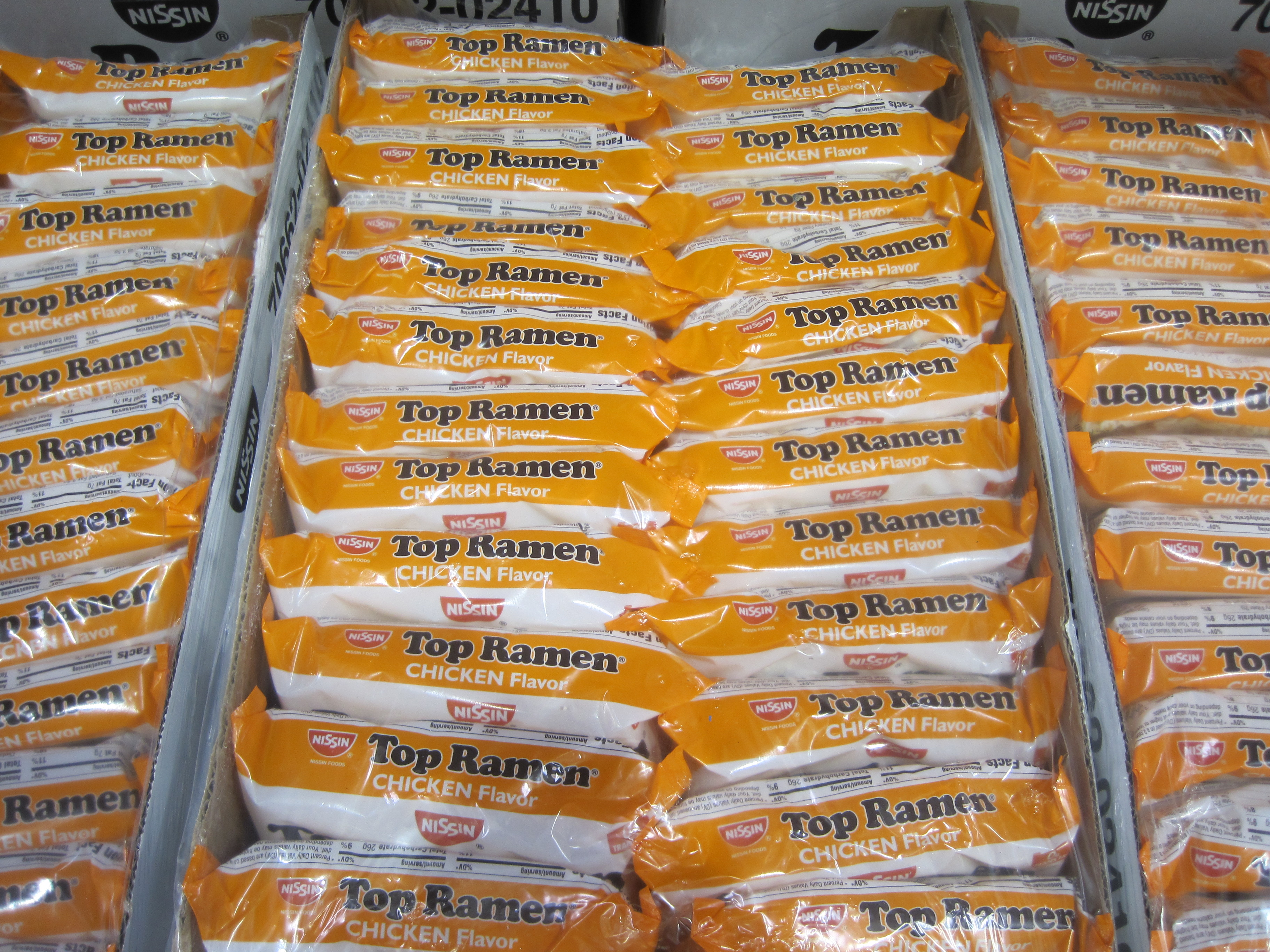 Packets of Top Ramen chicken flavor